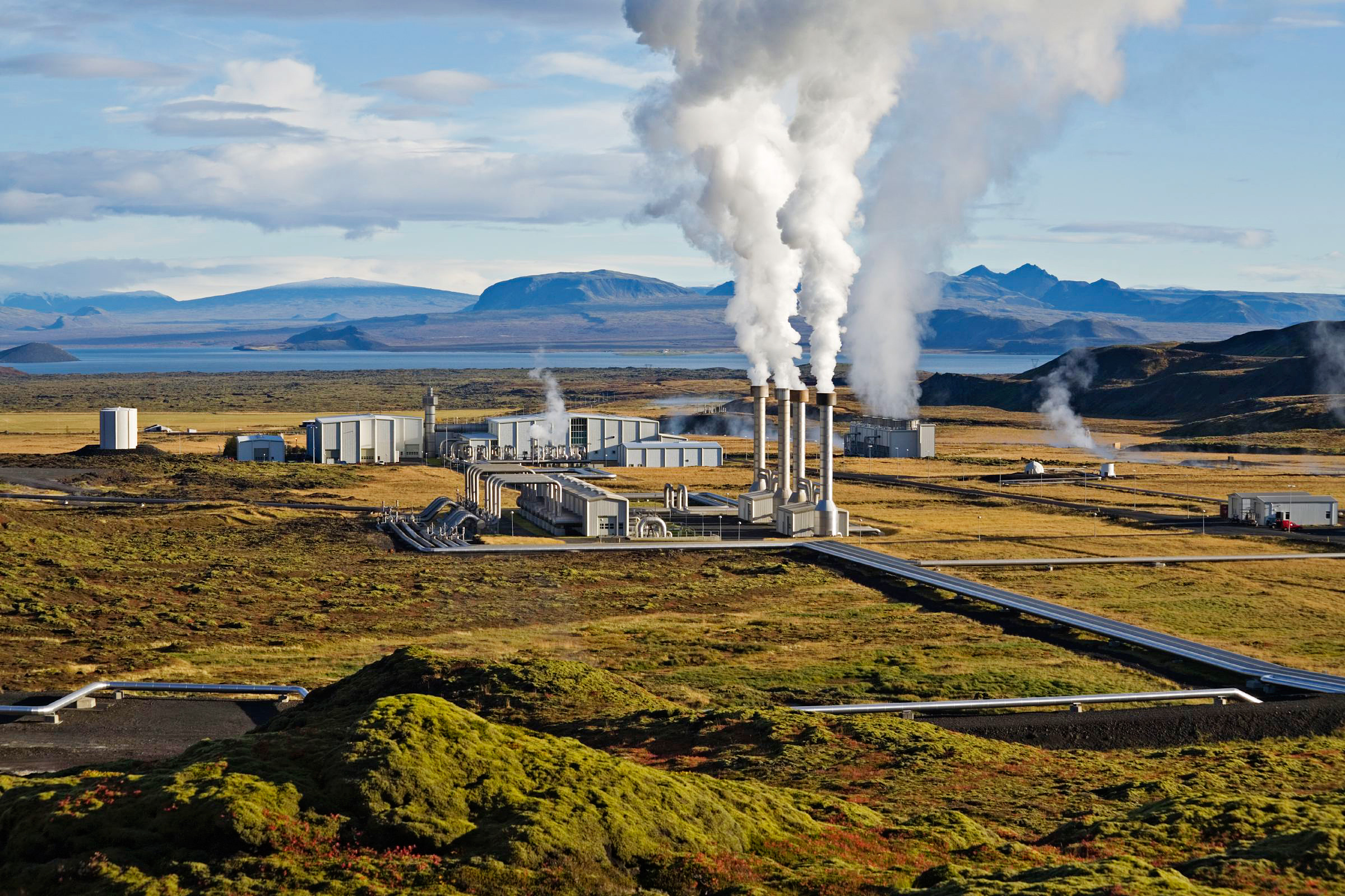 The Nesjavellir Geothermal Power Plant in Iceland